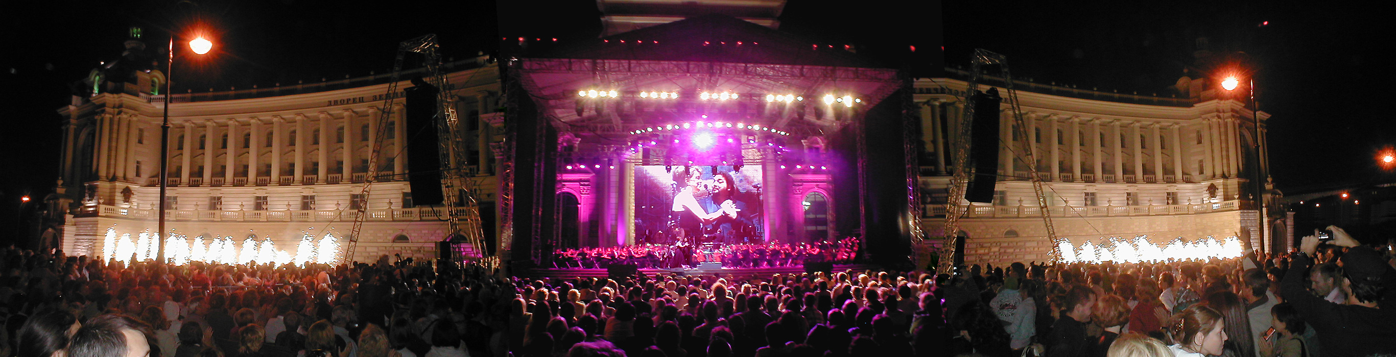 Palace square in Kazan, Kazan Autumn festival near Agriculturers palace